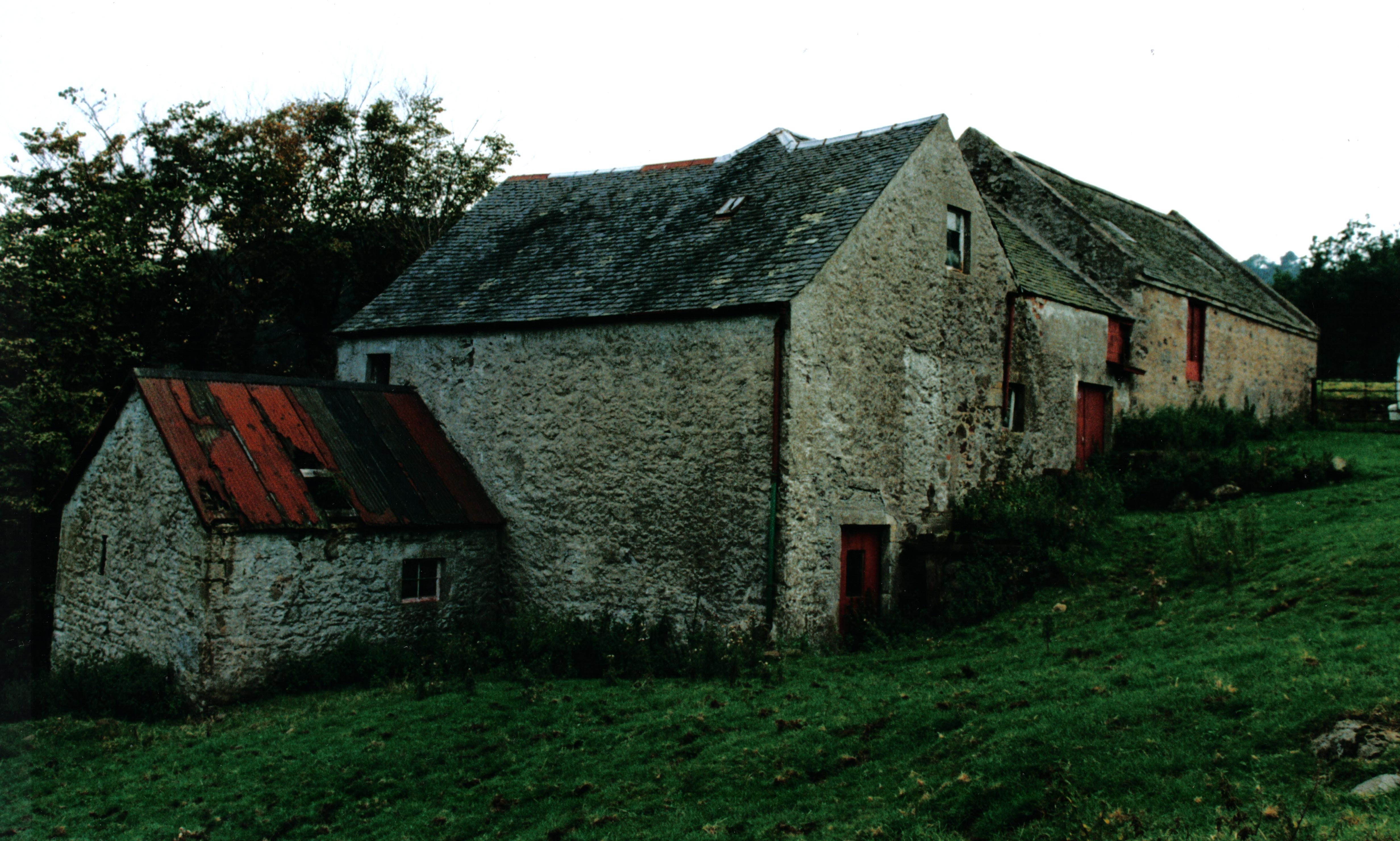 Coldstream Mill buildings, near Beith, North Ayrshire, Scotland.